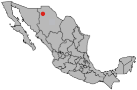 Location map of Nuevo Casas Grandes, México.